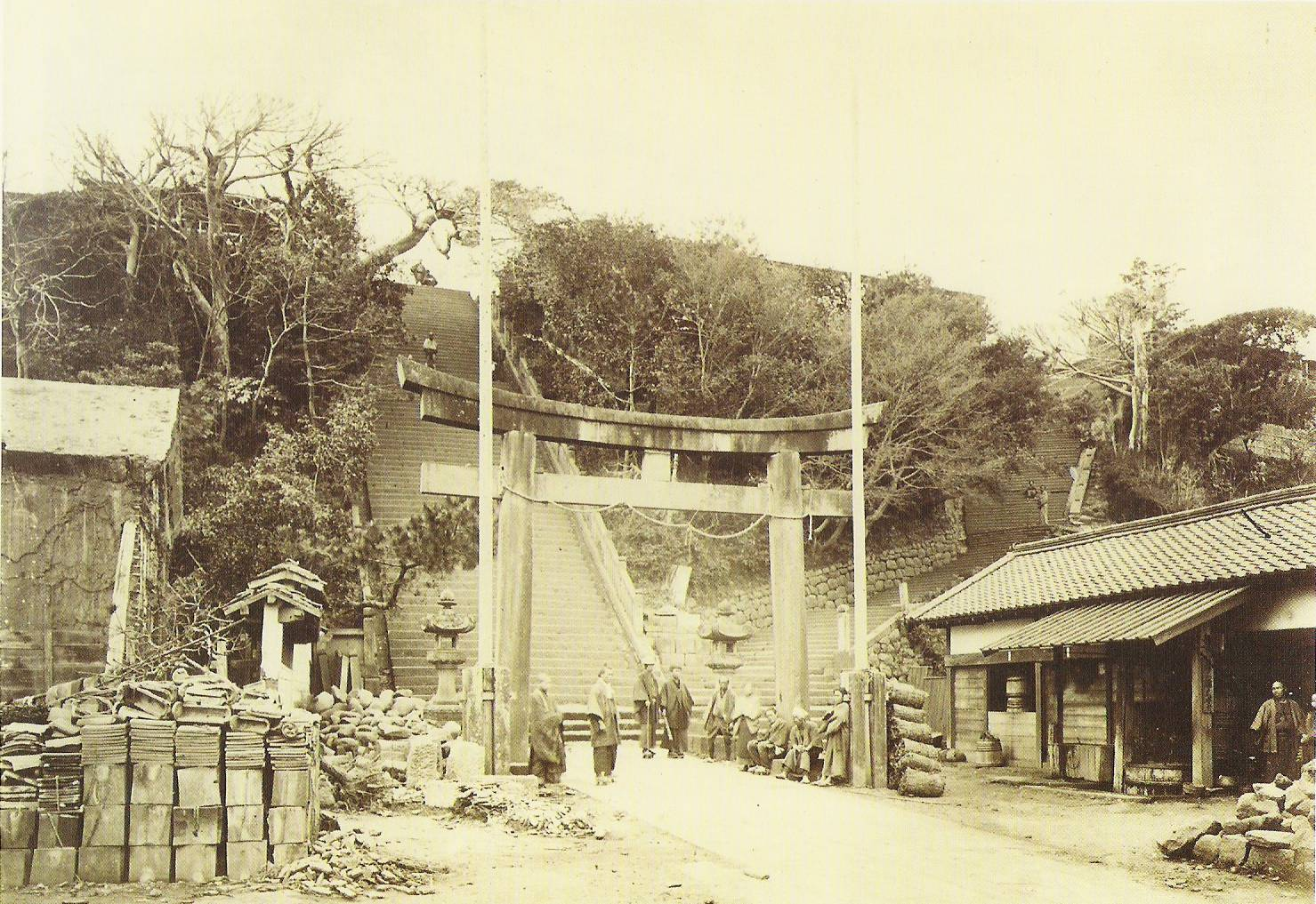 Stairs to the Atago shrine in Tokyo in 1872